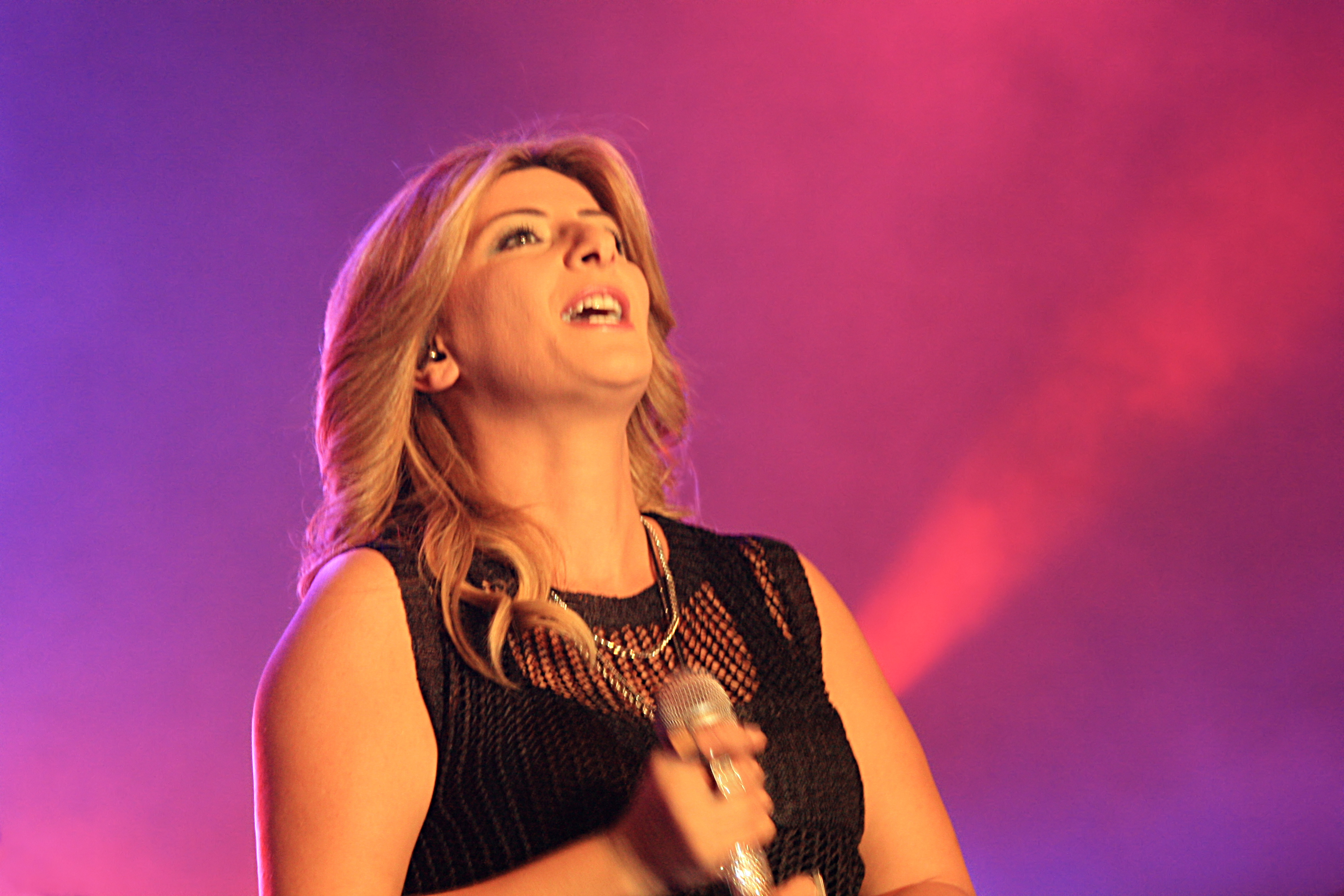 Sarit Hadad.